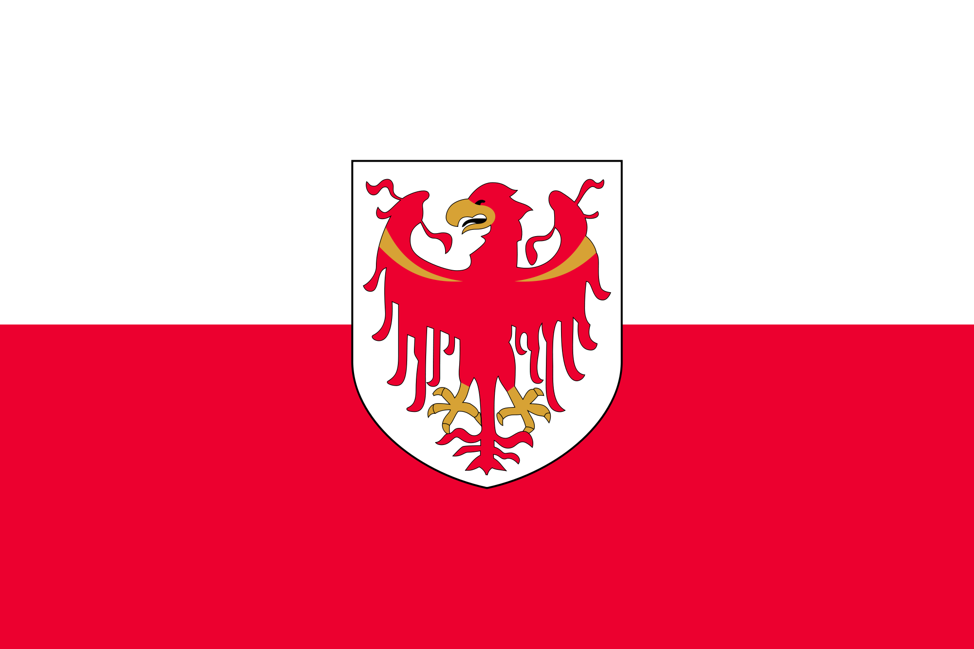 Flag of the Autonomous Province of Bolzano - Upper Adige/South Tyrol